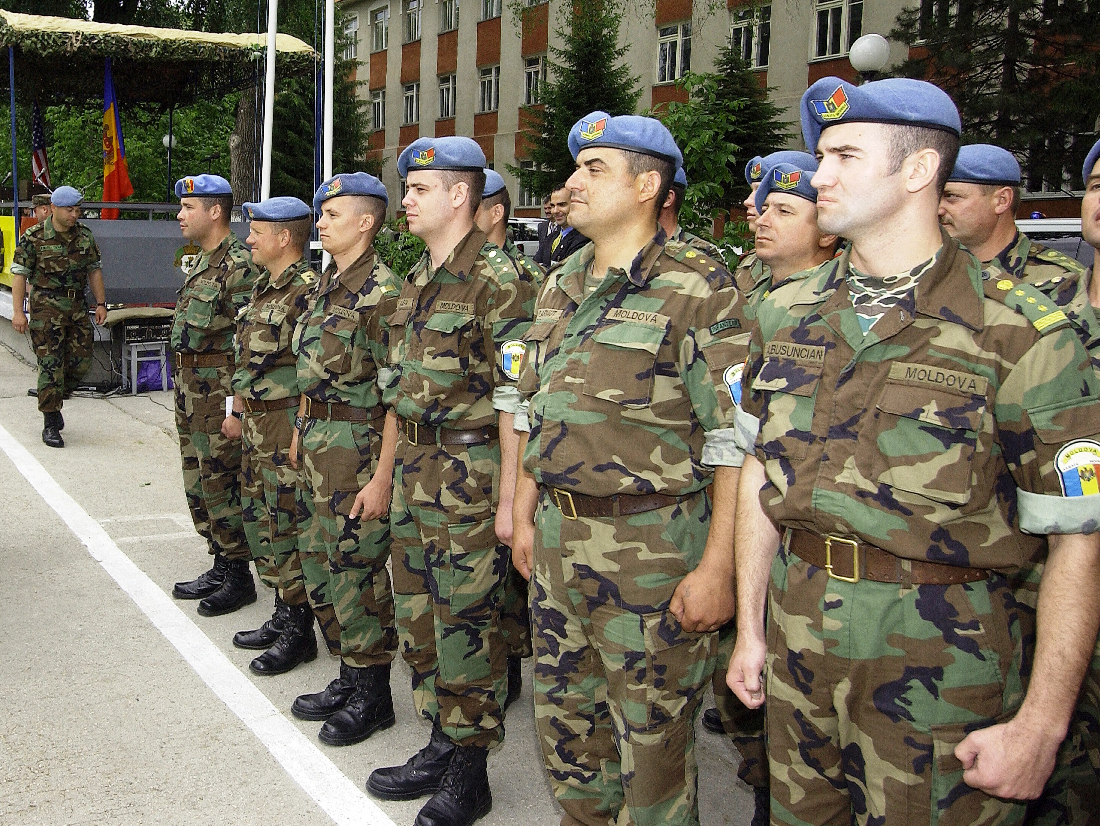 Moldovan army soldiers lined-up.